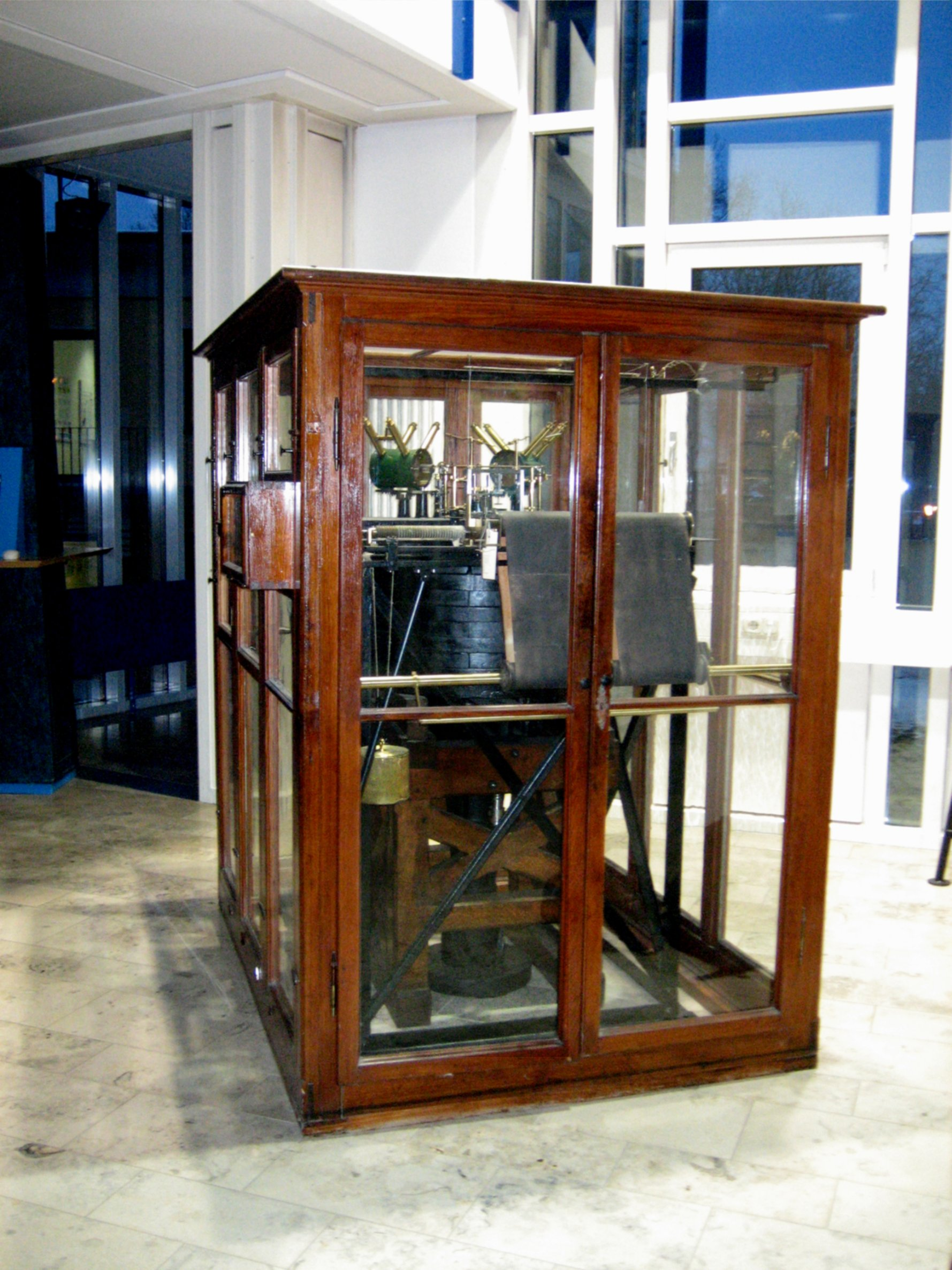 Sample of an original Wiechert seismometer shown in the GeoForschungsZentrum at Potsdam, Germany